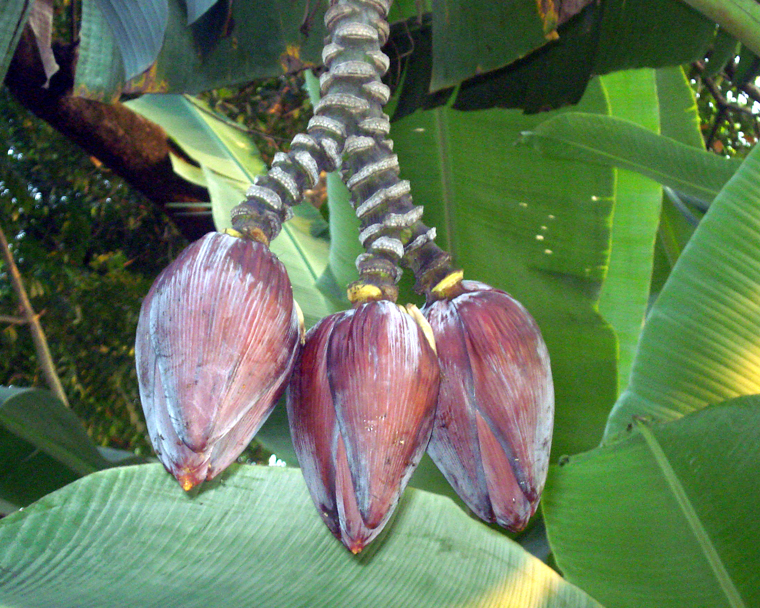 Branches in banana